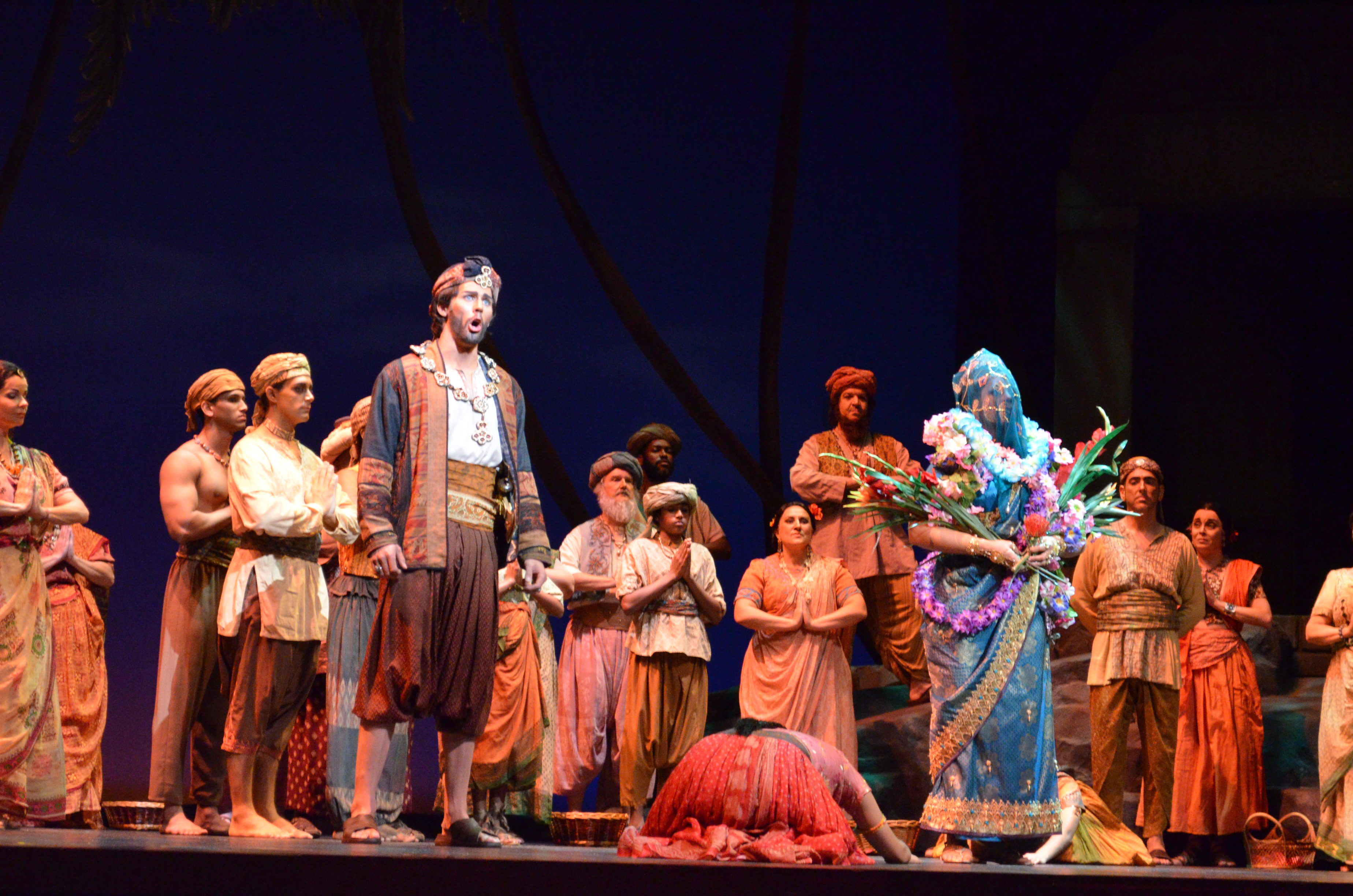 Florida Grand Opera presents Georges Bizet's The Pearl Fishers at the Adrienne Arsht Center and the Broward Center for the Performing Arts February 28 - March 14, 2015 Emily Birsan - Leïla Daniel Bates - Nadir Will Hughes - Zurga Burak Bilgili - Nourabad